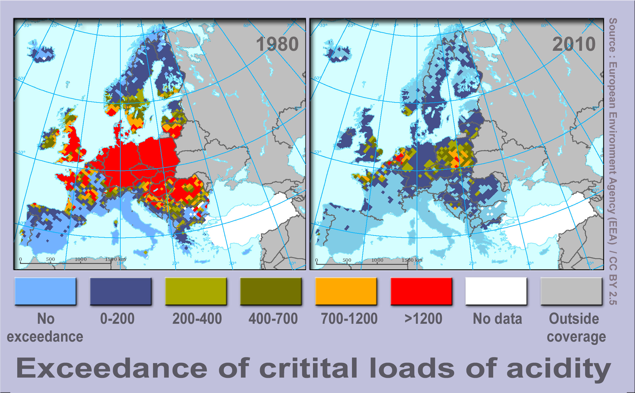 Exceedance of critital loads of acidity ; Maps showing changes in the extent to which European ecosystems are exposed to acid deposition (i.e. where the critical load limits for acidification are exceeded ; Unit = eq ha-1a-1. Values for 2010 are predicted based on adherence to implementation of NEC Directive.